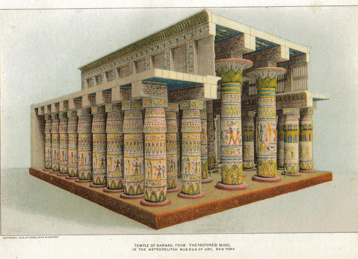 Illustration of the Great Hypostyle Hall of Karnak